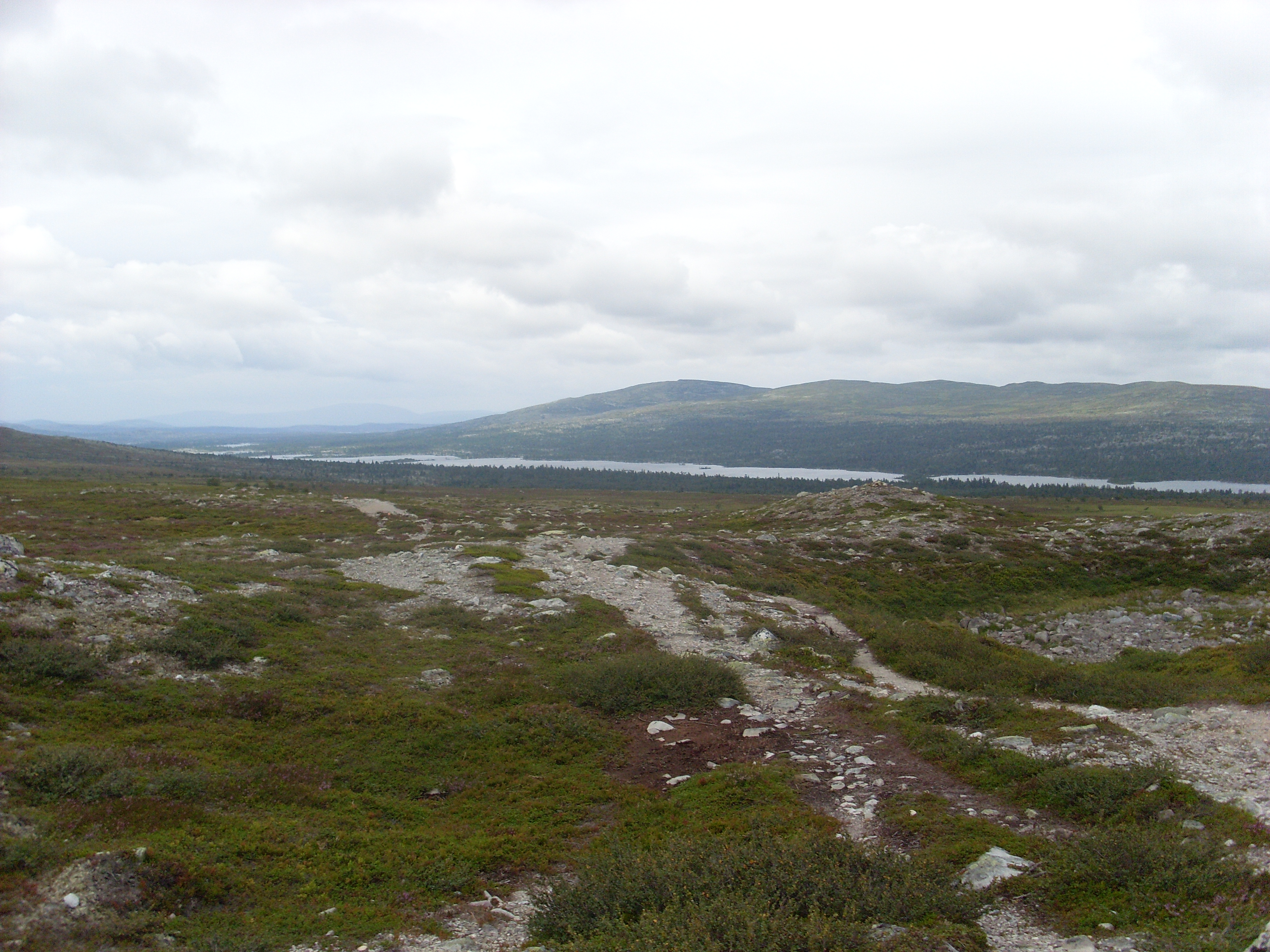 Overview over lake Hävlingen by Töfsingdalen National Park outside Grövelsjön, in Dalarna, Sweden.